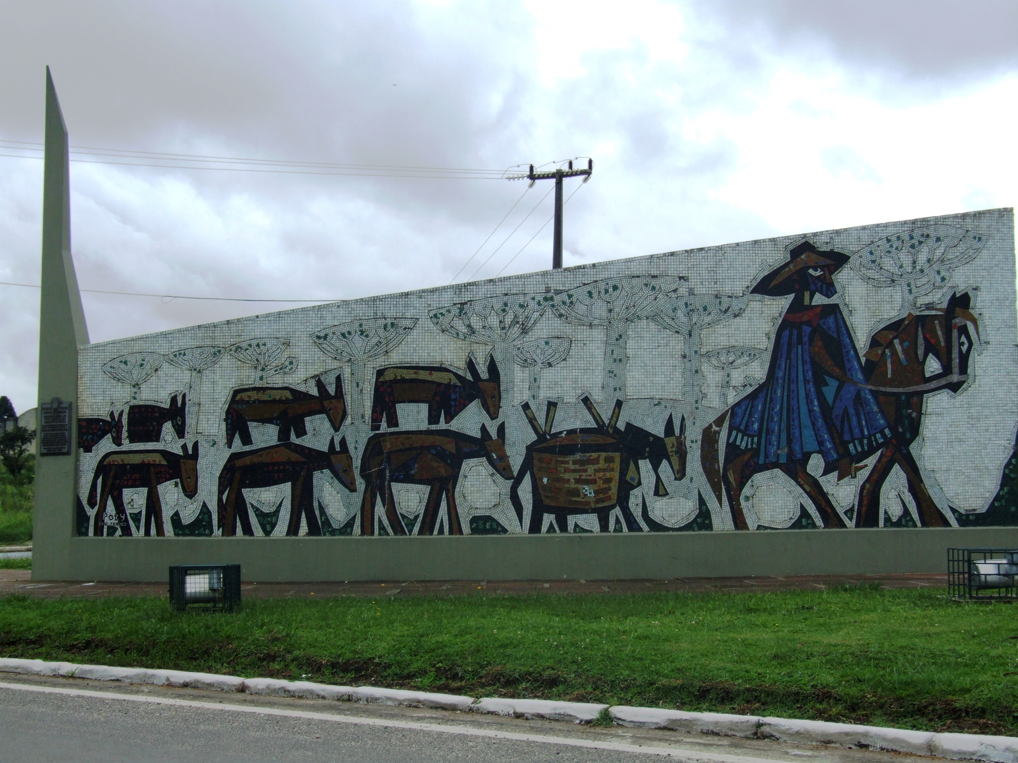 Monument to Tropeiro, in Lapa, Paraná, Brazil. Masterpiece of the Brazilian painter and sculptor Poty Lazarotto.